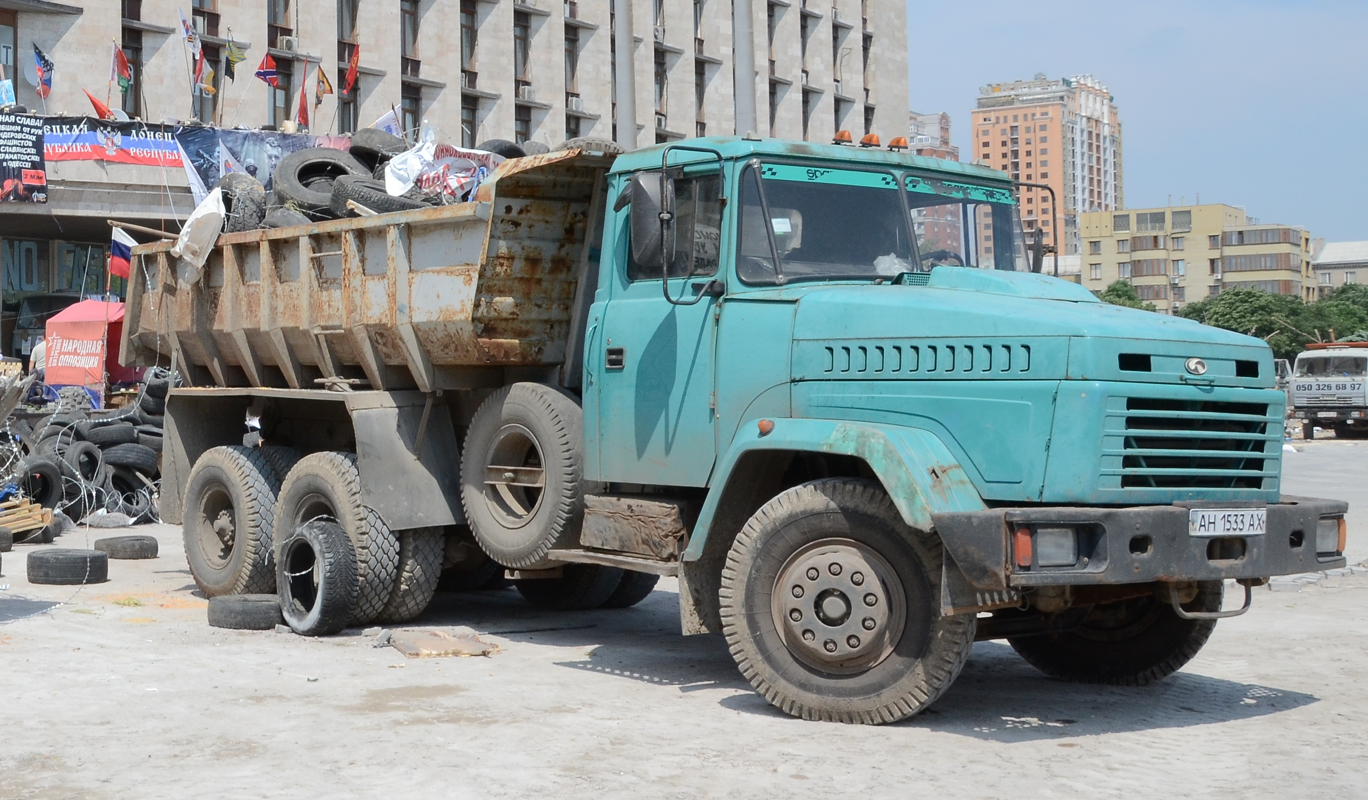 КрАЗ-6510